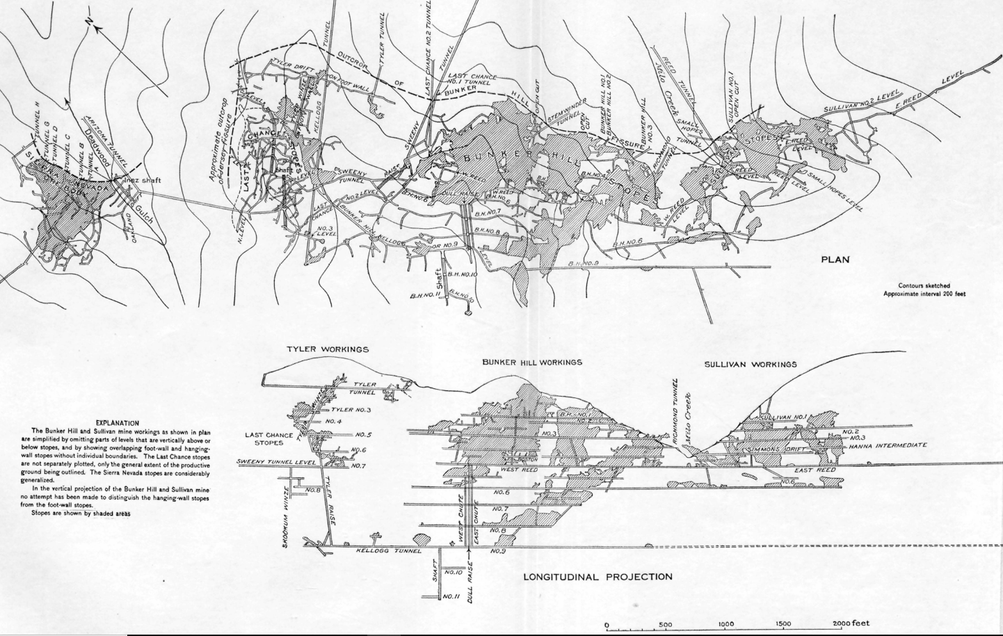 1904 Bunker Hill Mine Stope Map and Cross Section